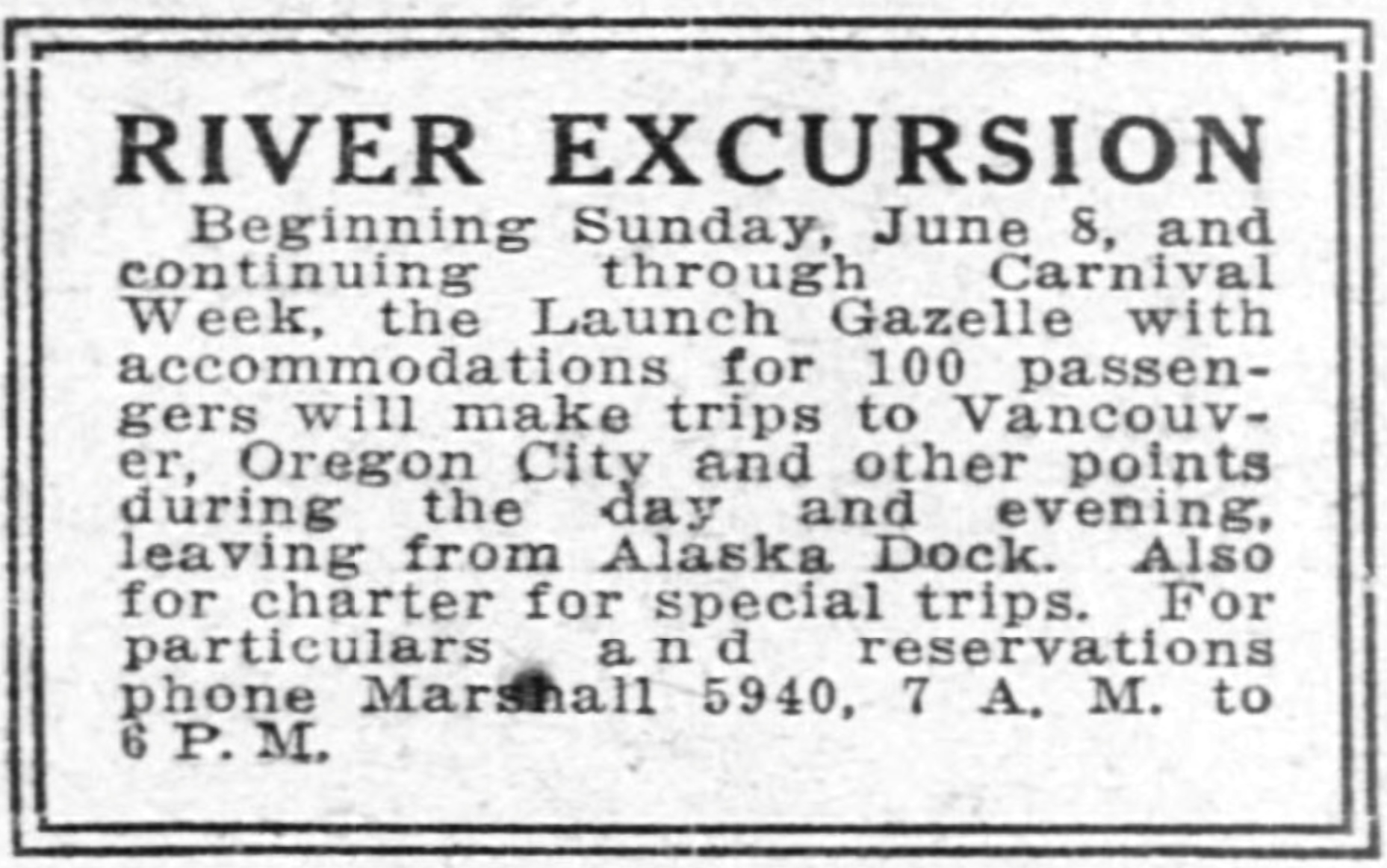 Advertisement for gasoline launch Gazelle (built in 1905) for river excursion in 1911.